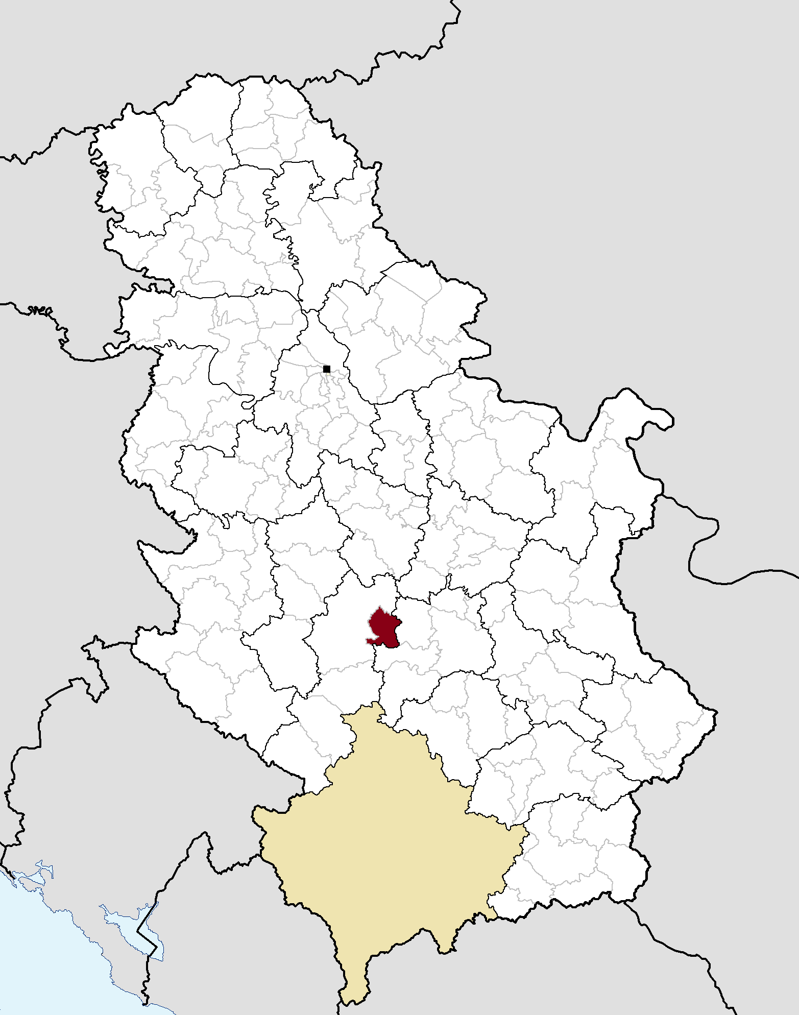 Municipal location in Serbia